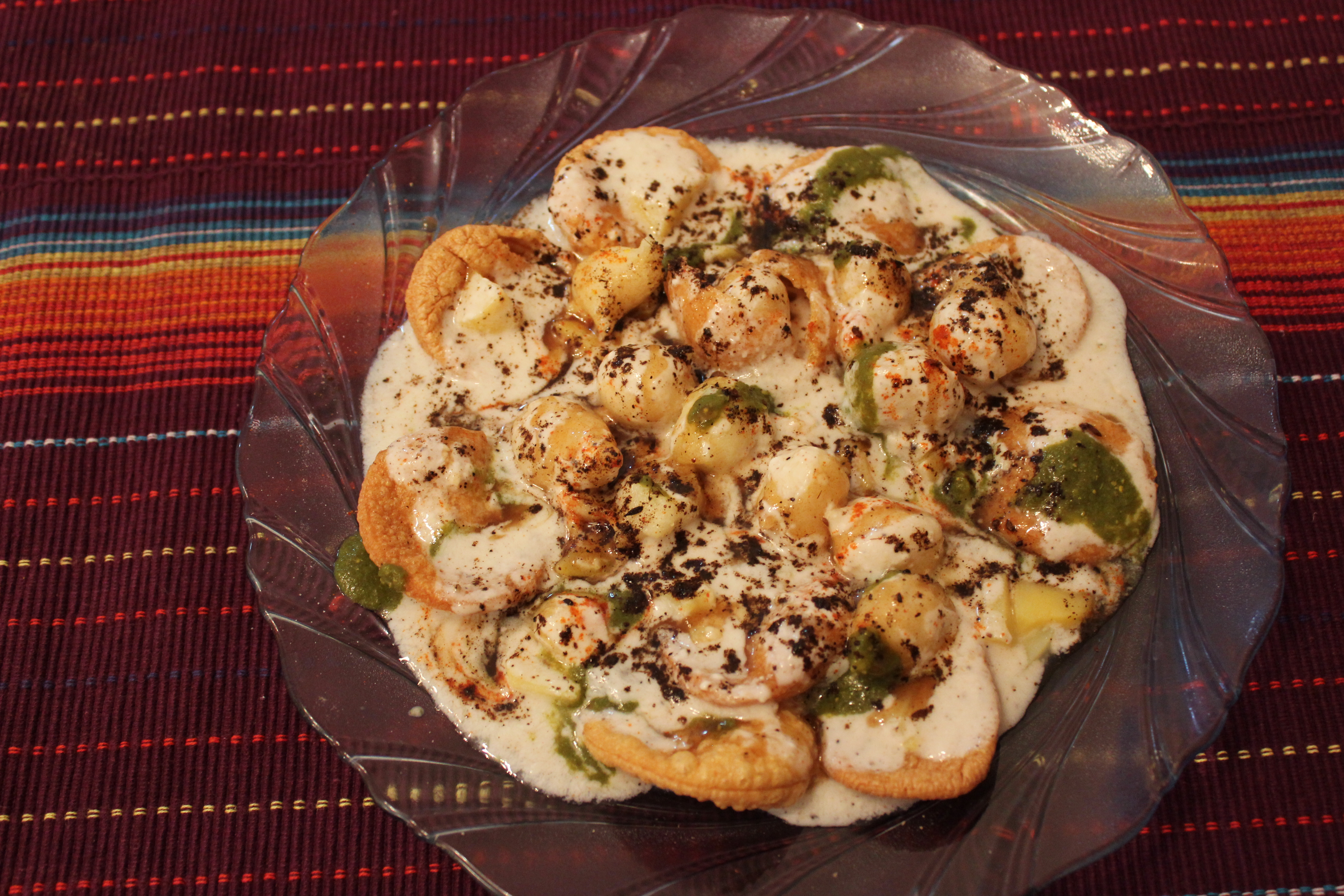 It is one of the most popular Indian snacks. Tangy and spicy, it is sold on almost every fast food center throughout India and it is sold on street sides by local vendors also specially in afternoon and evening.